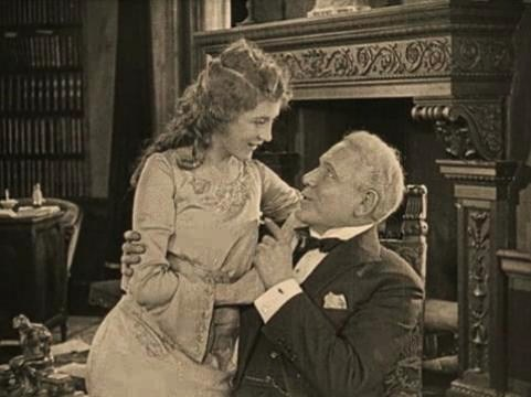 Mary Pickford & Ralph Lewis in The Hoodlum (1919) - cropped screenshot